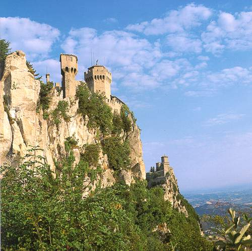 The three towers of San Marino Castle, Republic of San Marino.